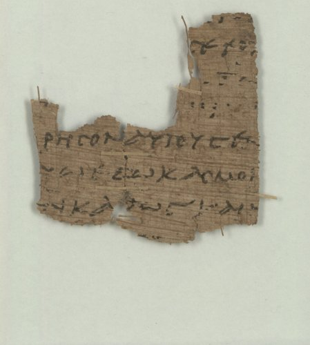 Papyrus 107